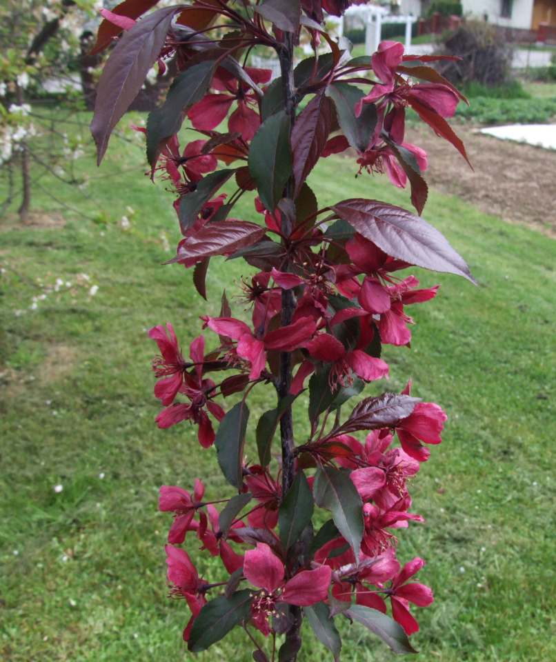 Malus x purpurea 'Royalty'